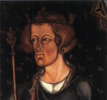 Erected at Westminster Abbey sometime during reign of Edward I, thought to be an image of the King.